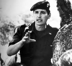 Enrico Barisone